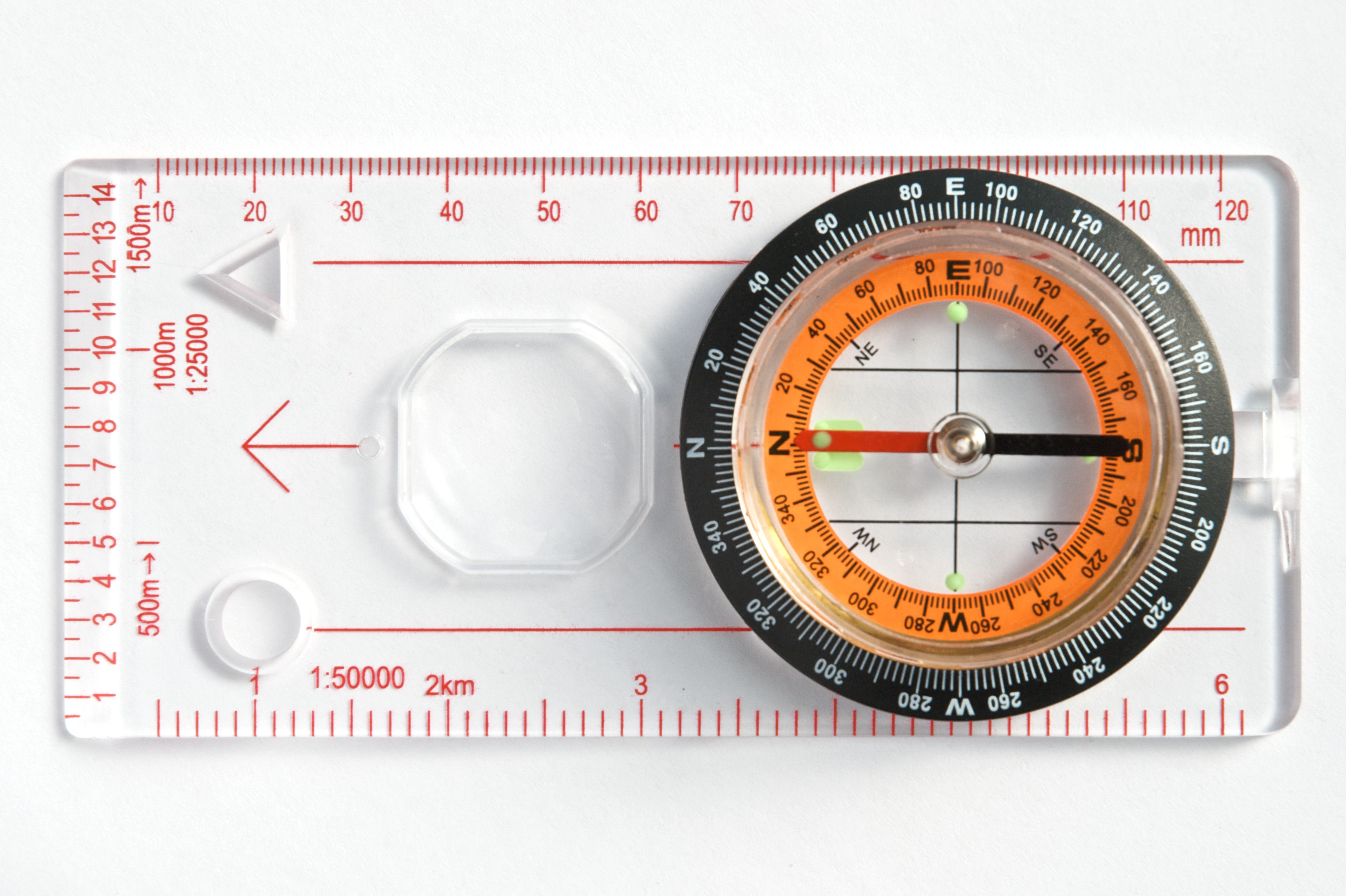 A baseplate compass